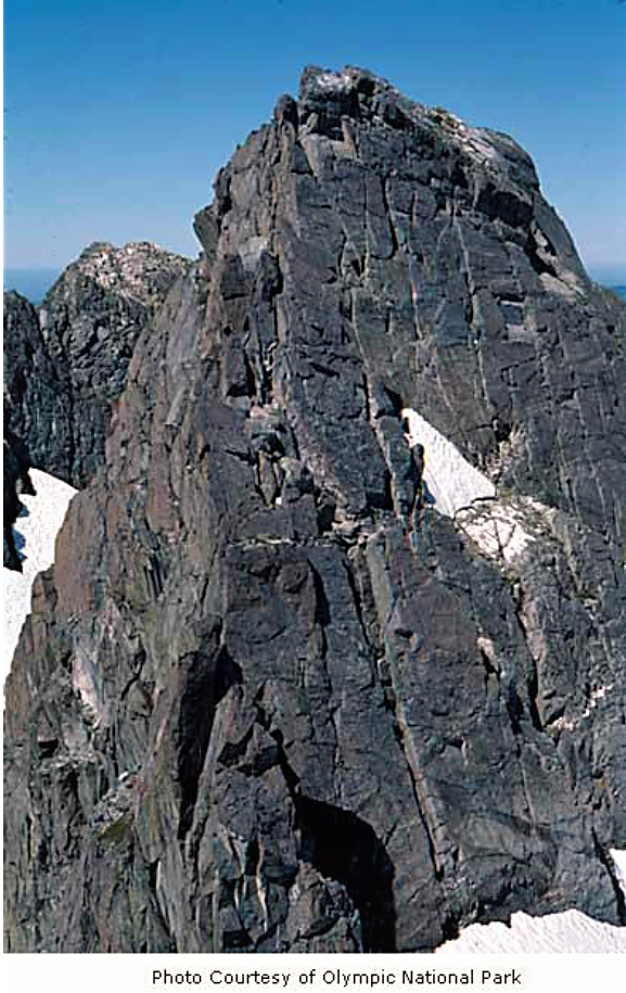 Woden seen from Hugin, The Valhallas range, Olympic National Park, date unknown